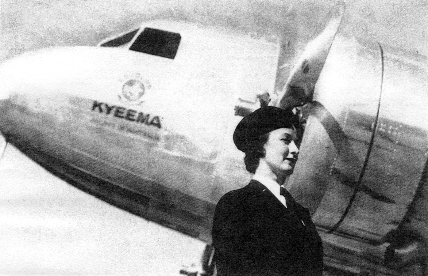 Publicity picture depicting Airlines of Australia DC-2 Kyeema, which crashed in October 1938, resulting in the worst air disaster in Australia to that date—18 deaths.